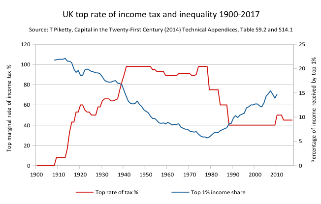 UK top rate of income tax and inequality of income, measured by the top 1% earners' share of total income.